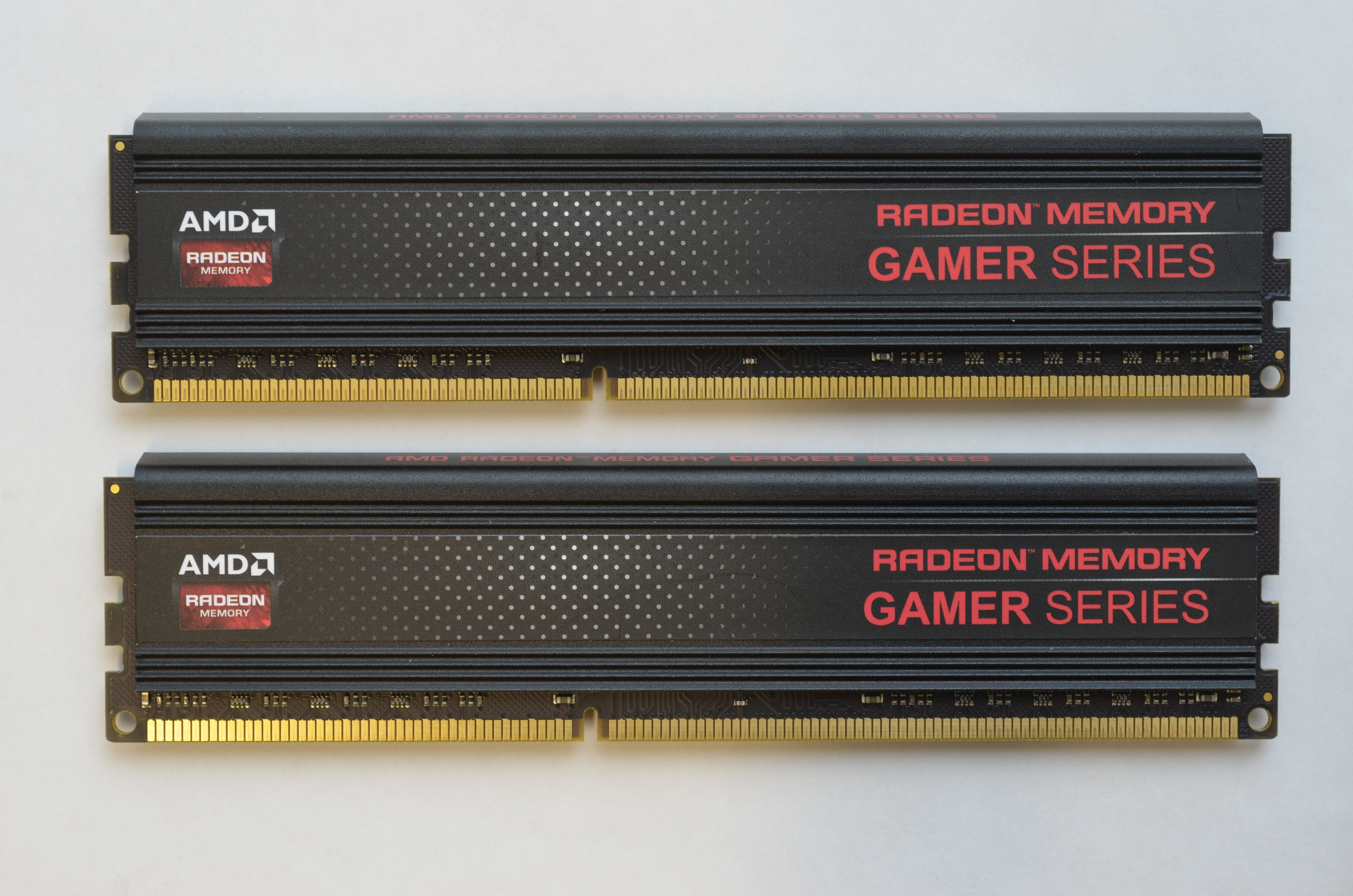 AMD Radeon Memory - 8 GB * 2